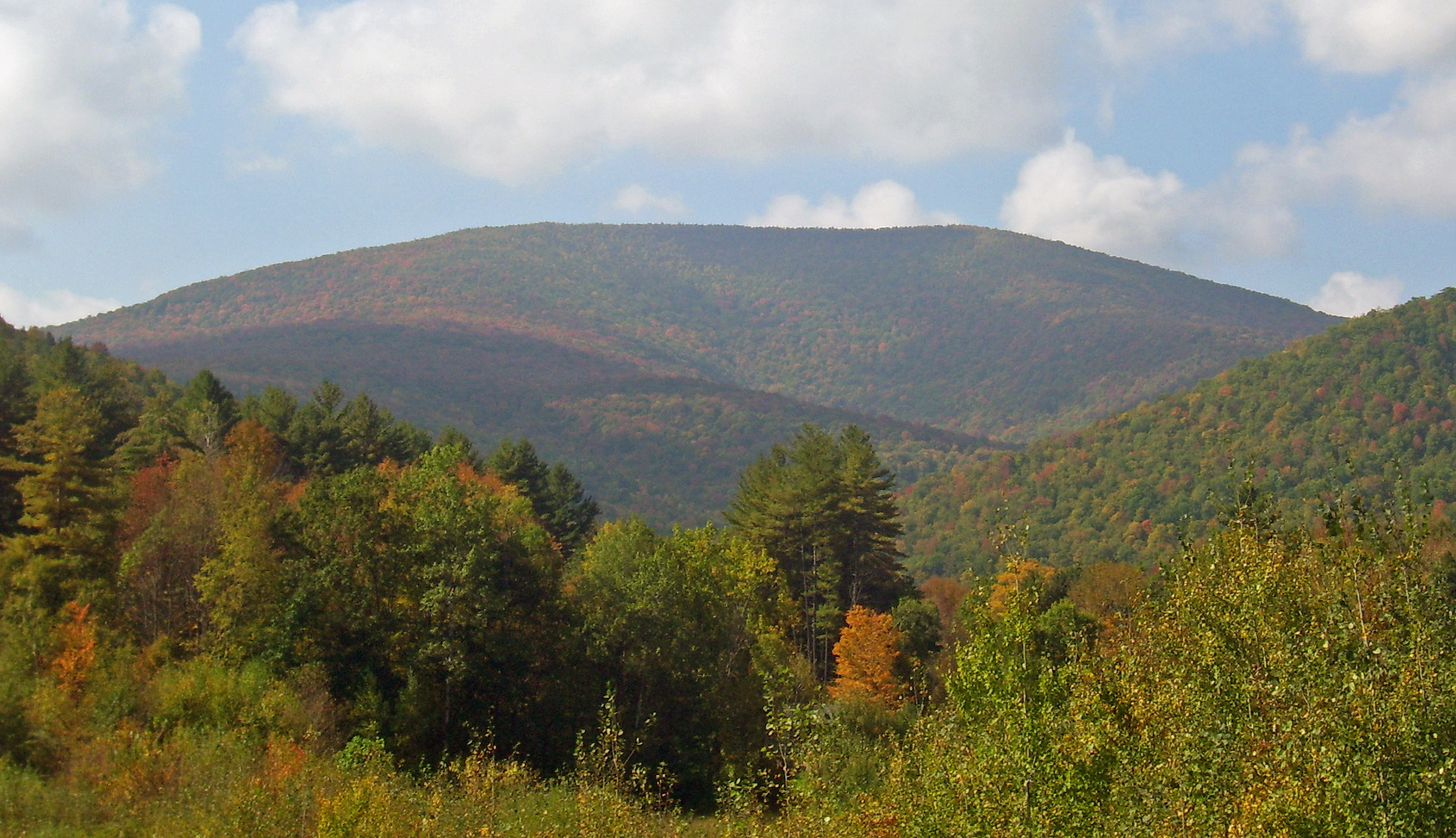 Balsam Mountain, one of the Catskill High Peaks, seen from near Big Indian, NY, USA